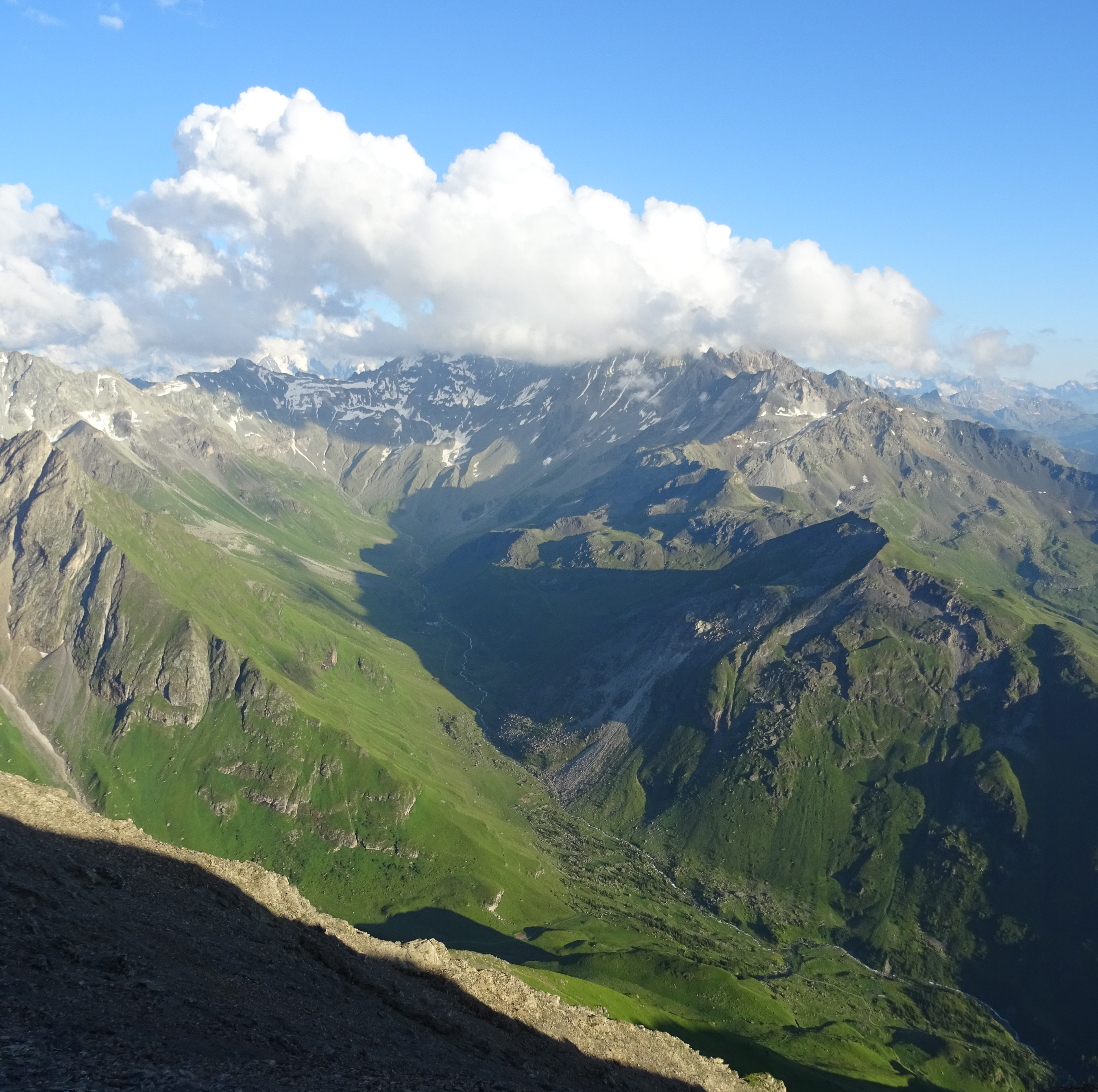 Val d’Err with Alp d’Err, picture taken from Pizza Grossa (Surses, Grison, Switzerland)